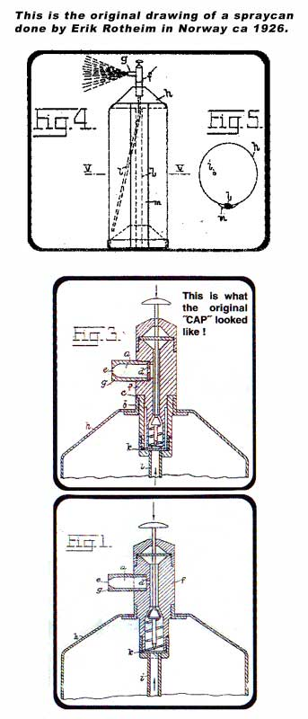 This is a sketch of a spray can done by Erik Rotheim ca. 1926.